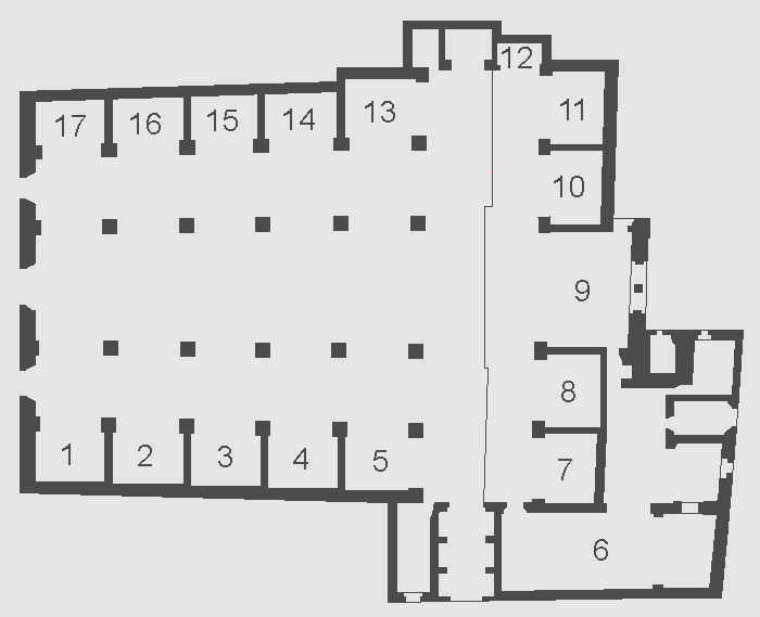 Santa Trinita. Plant. Florence